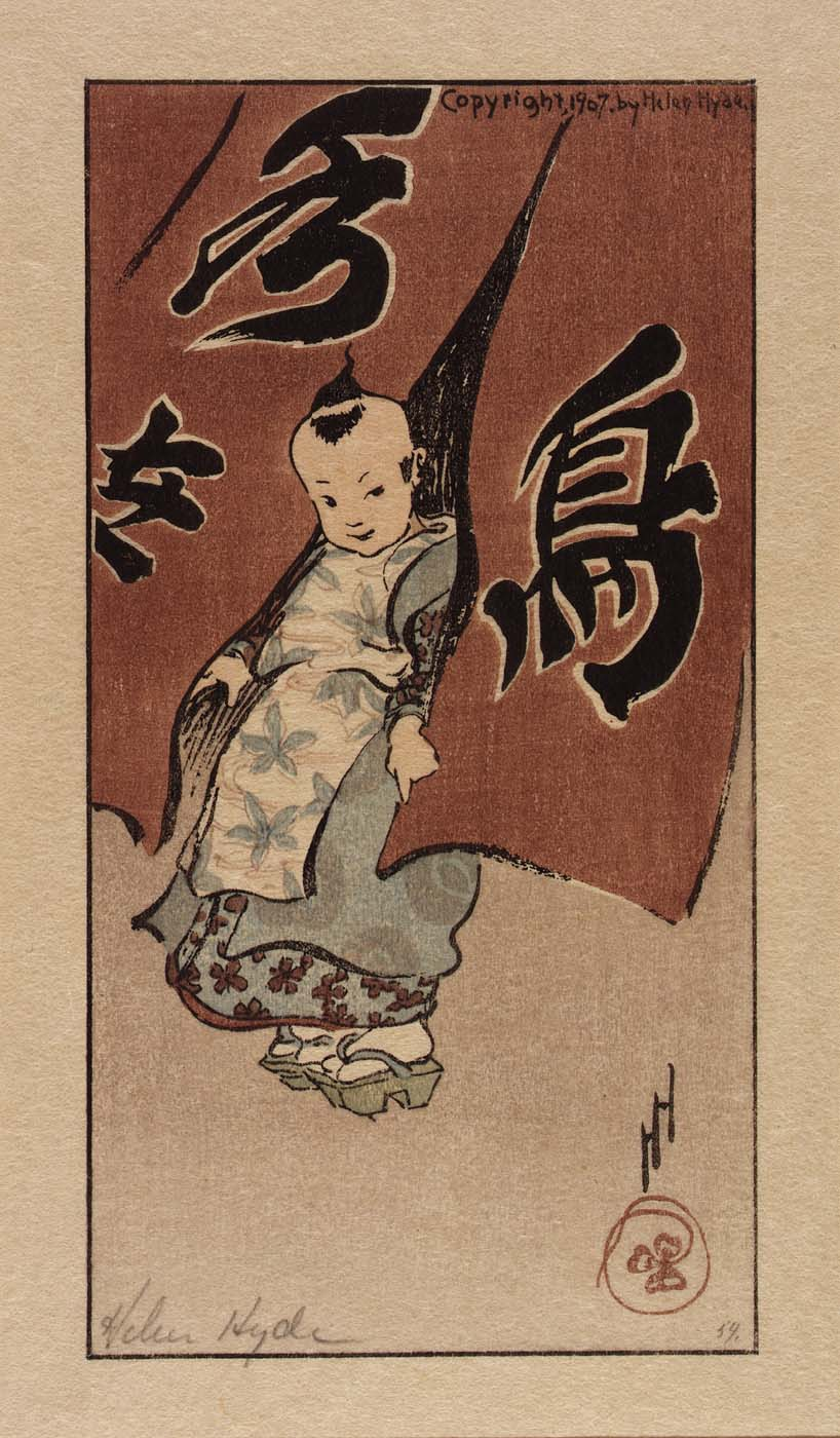 The red curtain - Helen Hyde